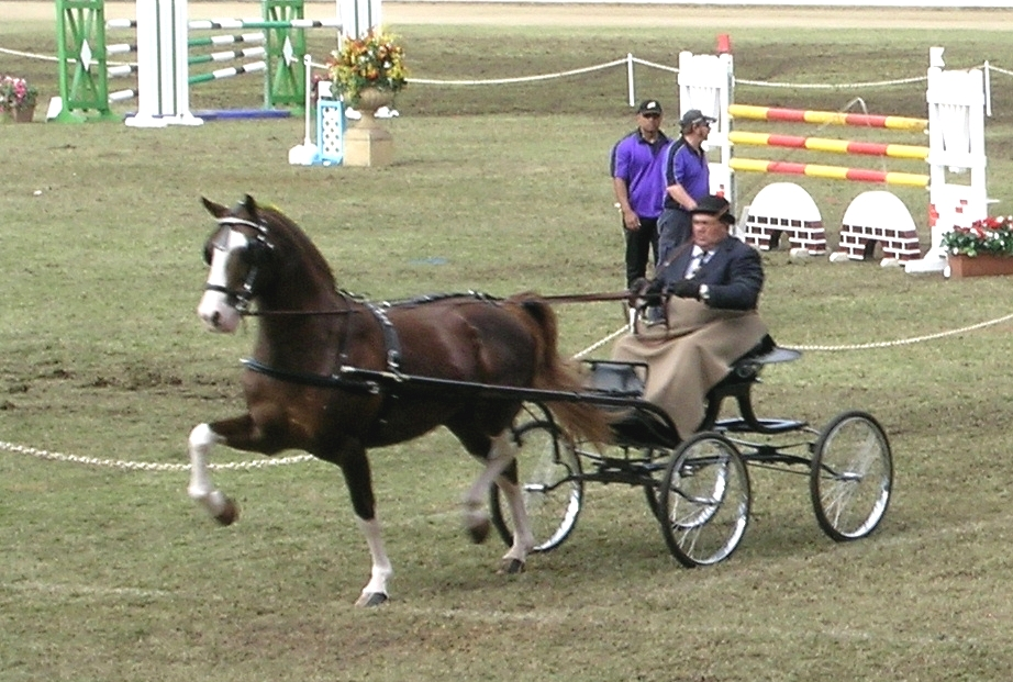 A Hackney horse in action at the Sydney Royal Easter Show.